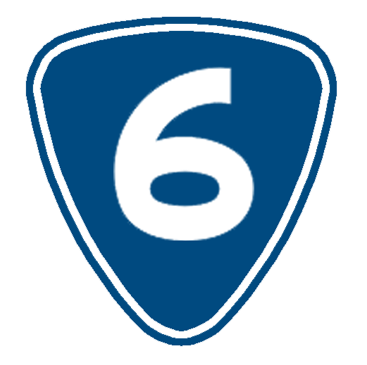 this graph made by vegafish